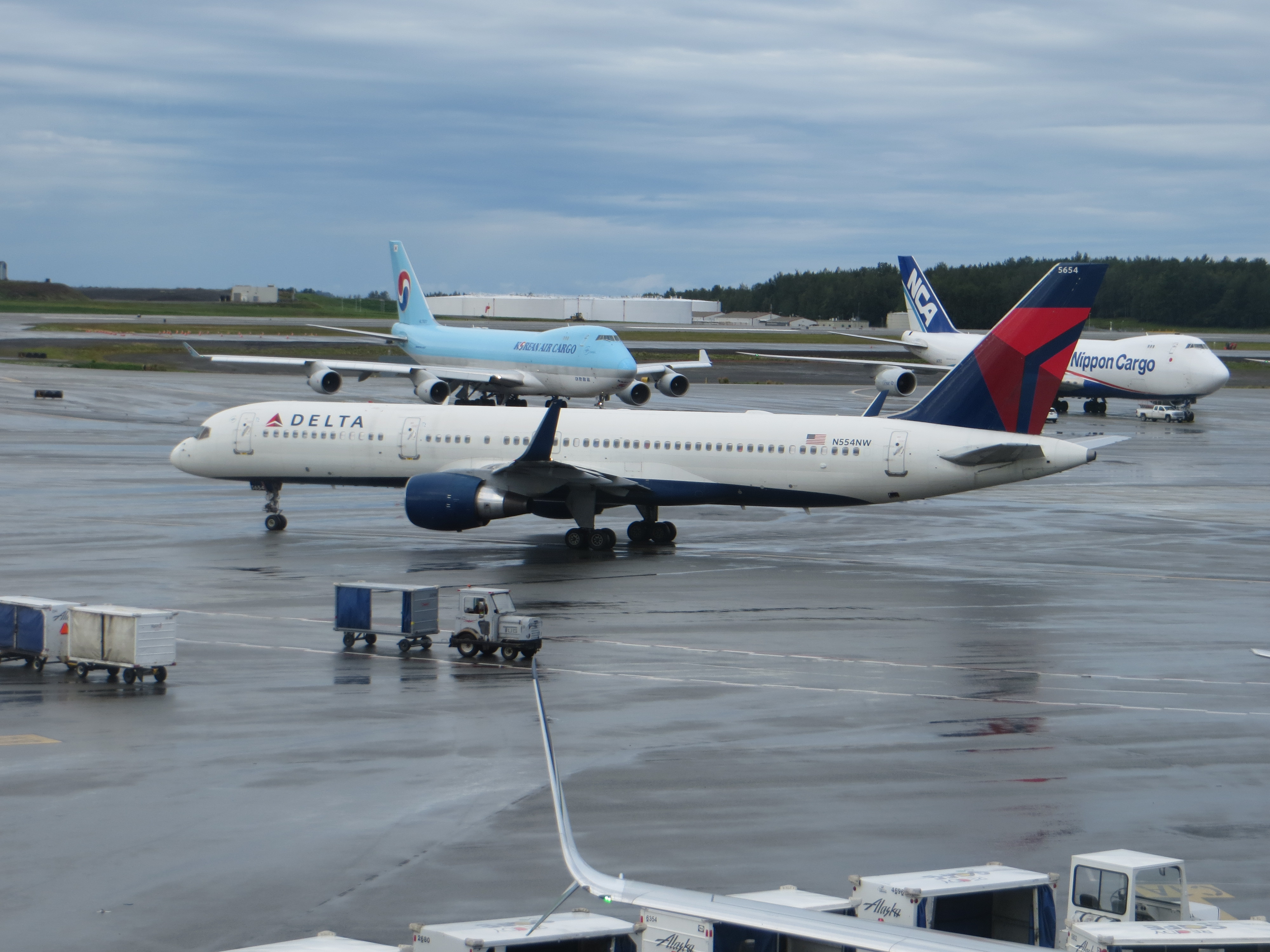 Delta Air Lines Boeing 757-200 registered N554NW at Ted Stevens Anchorage International Airport. Operating Flight 1384 to Minneapolis